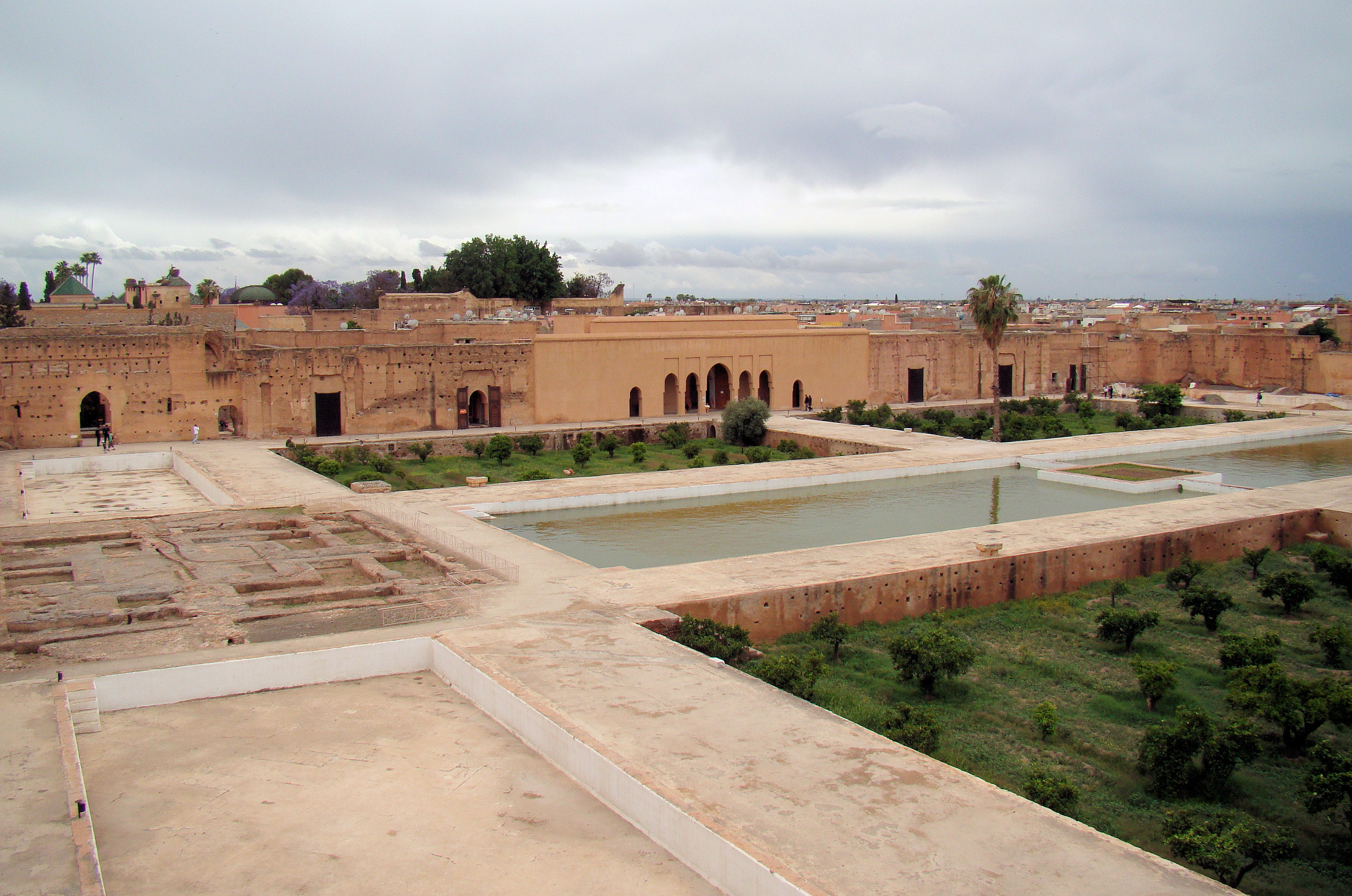 The courtyard of the (former) El Badi Palace in Marrakesh, Morocco.